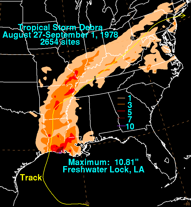 Storm total rainfall map of Tropical Storm Debra during August and September 1978.